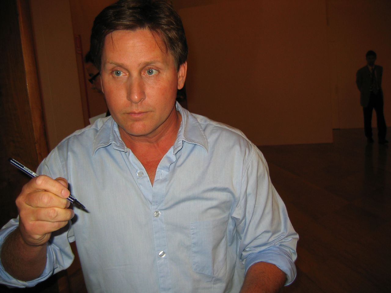 Emilio Estevez at the Venice Film Festival in 2006